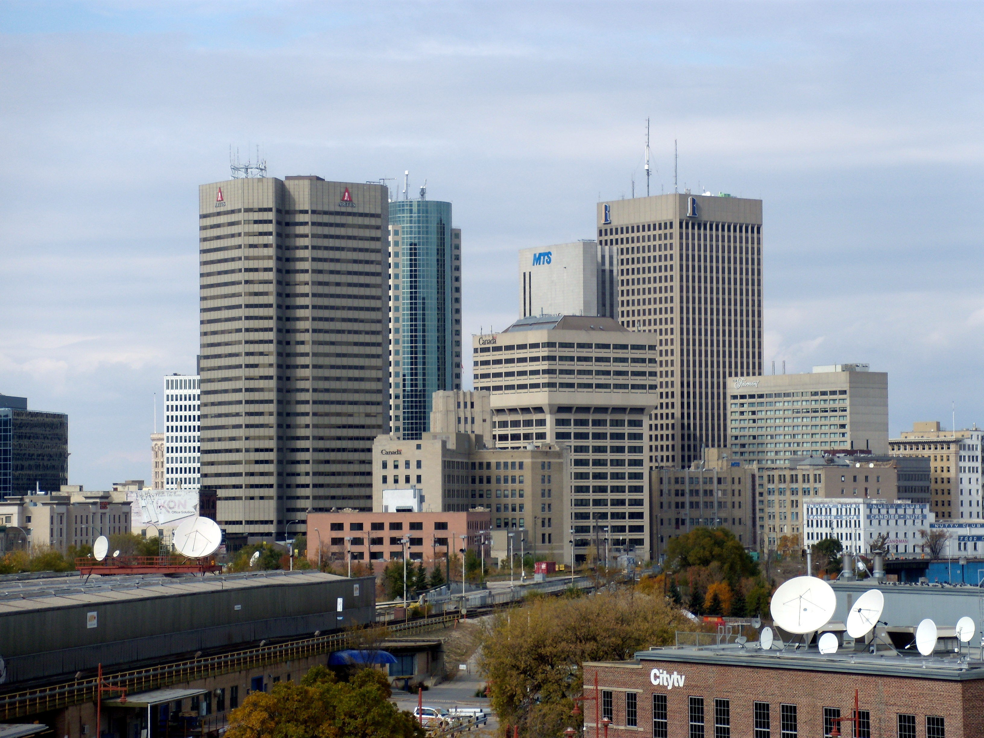 Cluster of downtown buildings as seen from the Forks, Winnipeg